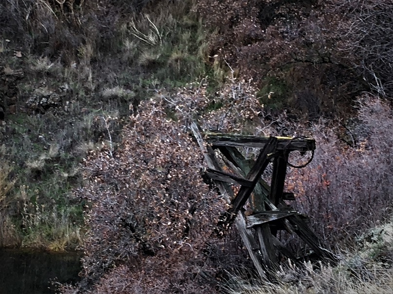 Interior Grain Tramway Telephoto image of one of the few remaining towers. Terrain in the area is rough and unstable.